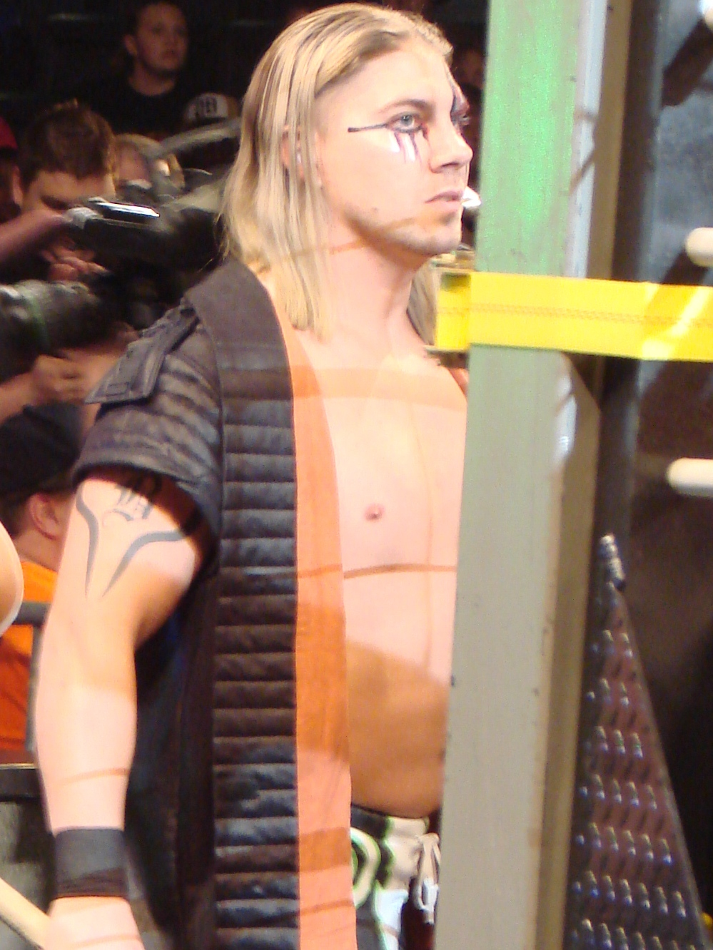 Matt Bentley at TNA Lockdown. Family Arena, St. Charles, April 152007. Taken by me.